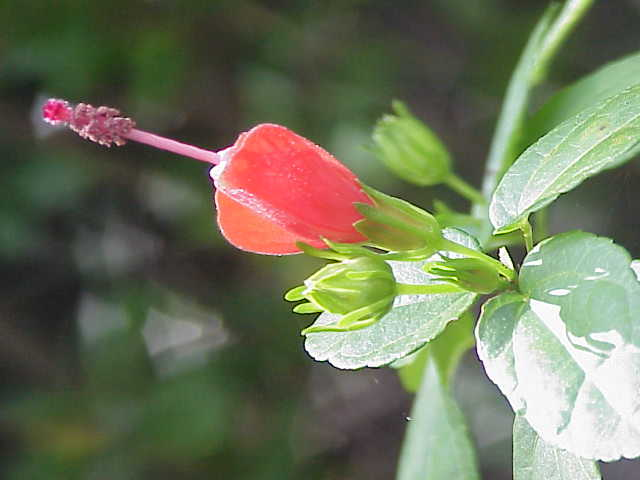 Species: Malvaviscus arboreus Family: Malvaceae Image No. 2